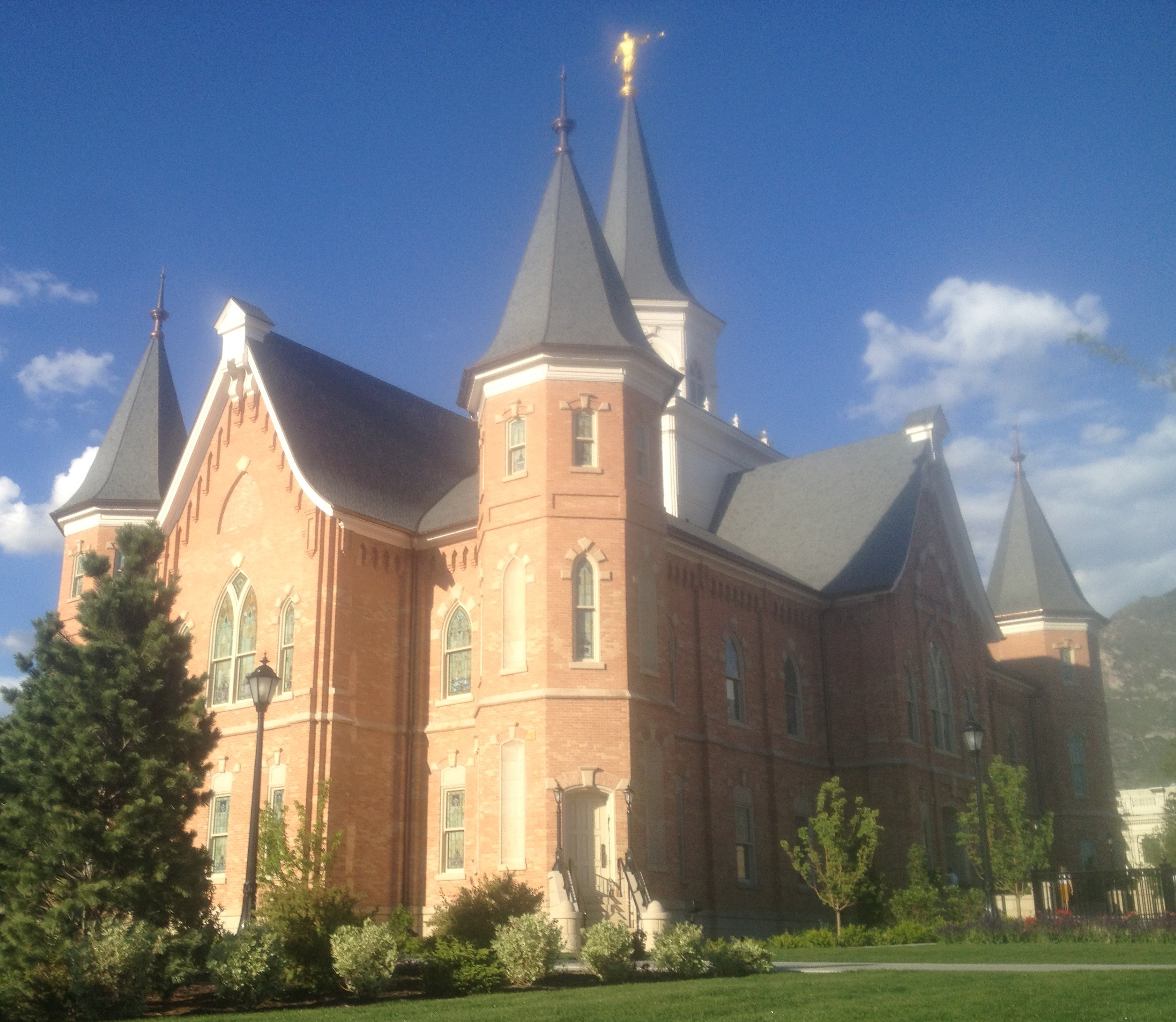 View of the Provo City Center Temple.